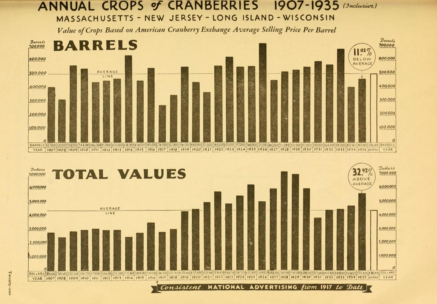 A bar chart of cranberry production in the United States from 1907 to 1935 from Cranberries: The National Cranberry Magazine, Wareham, Massachusetts, volume 1 number 2, June 1936, page 21.